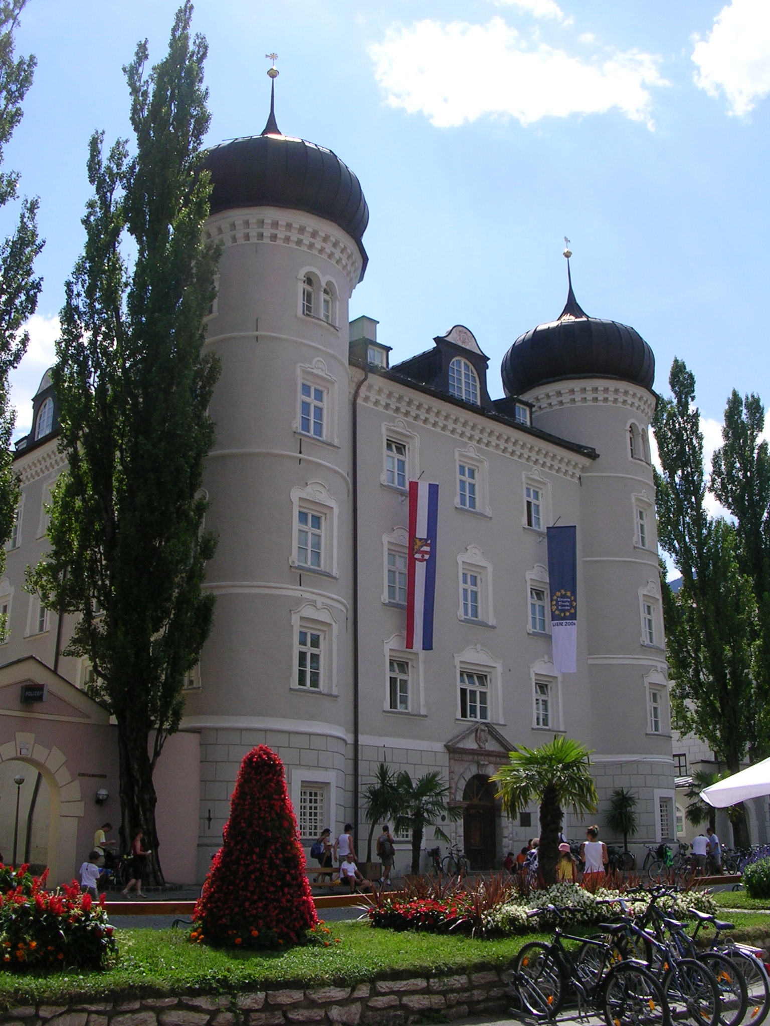 Die Liebburg, das Rathhaus von Lienz Austria This media shows the remarkable cultural object in the Austrian state of Tyrol listed by the Tyrolean Art Cadastre with the ID 17766. (on tirisMaps, pdf, more images on Commons, Wikidata)